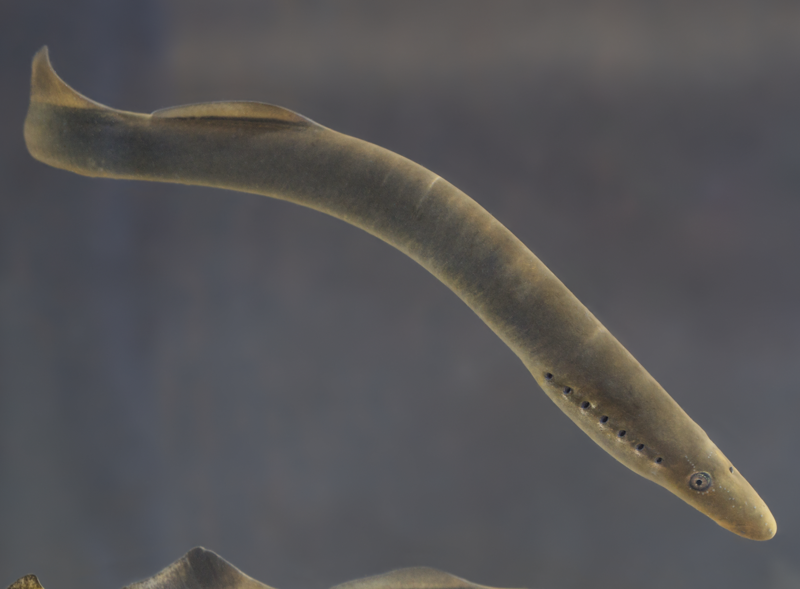 Lampetra fluviatilis in Pirita river, Estonia.